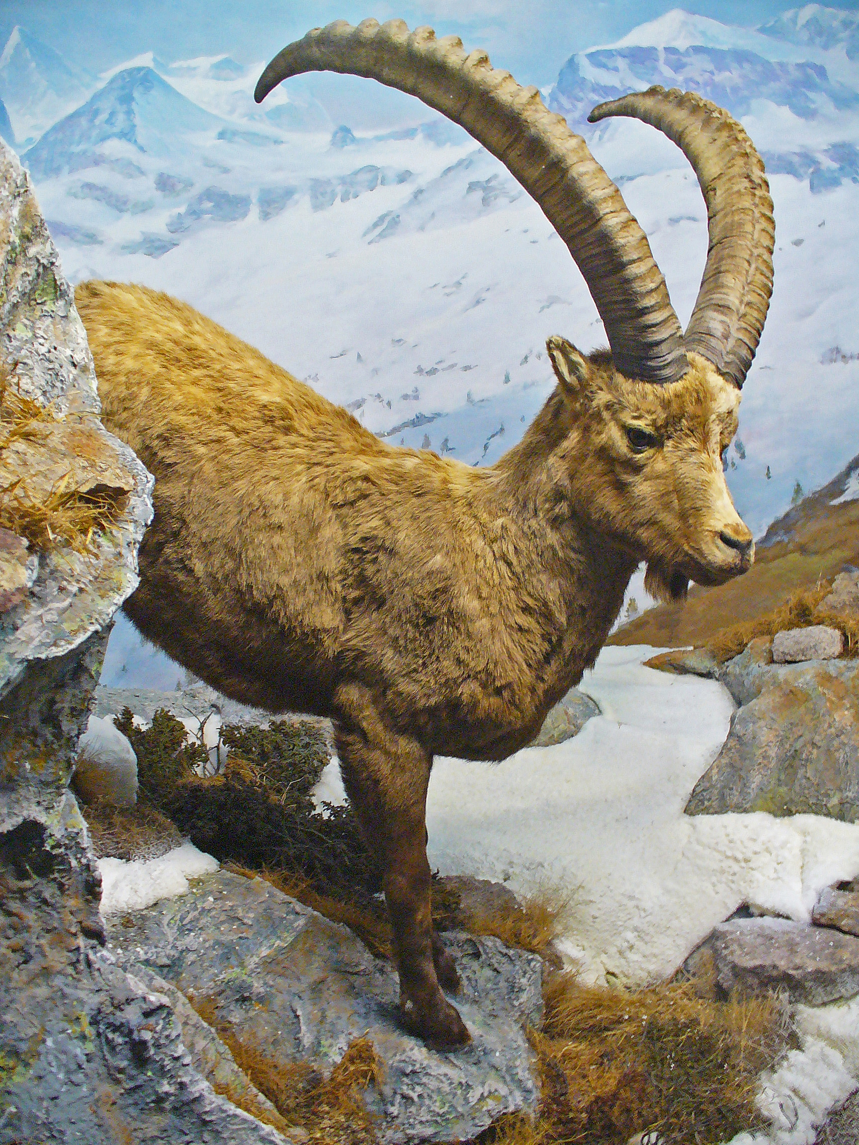 Capra ibex, Bovidae, Alpine Ibex; Staatliches Museum für Naturkunde Karlsruhe, Germany.